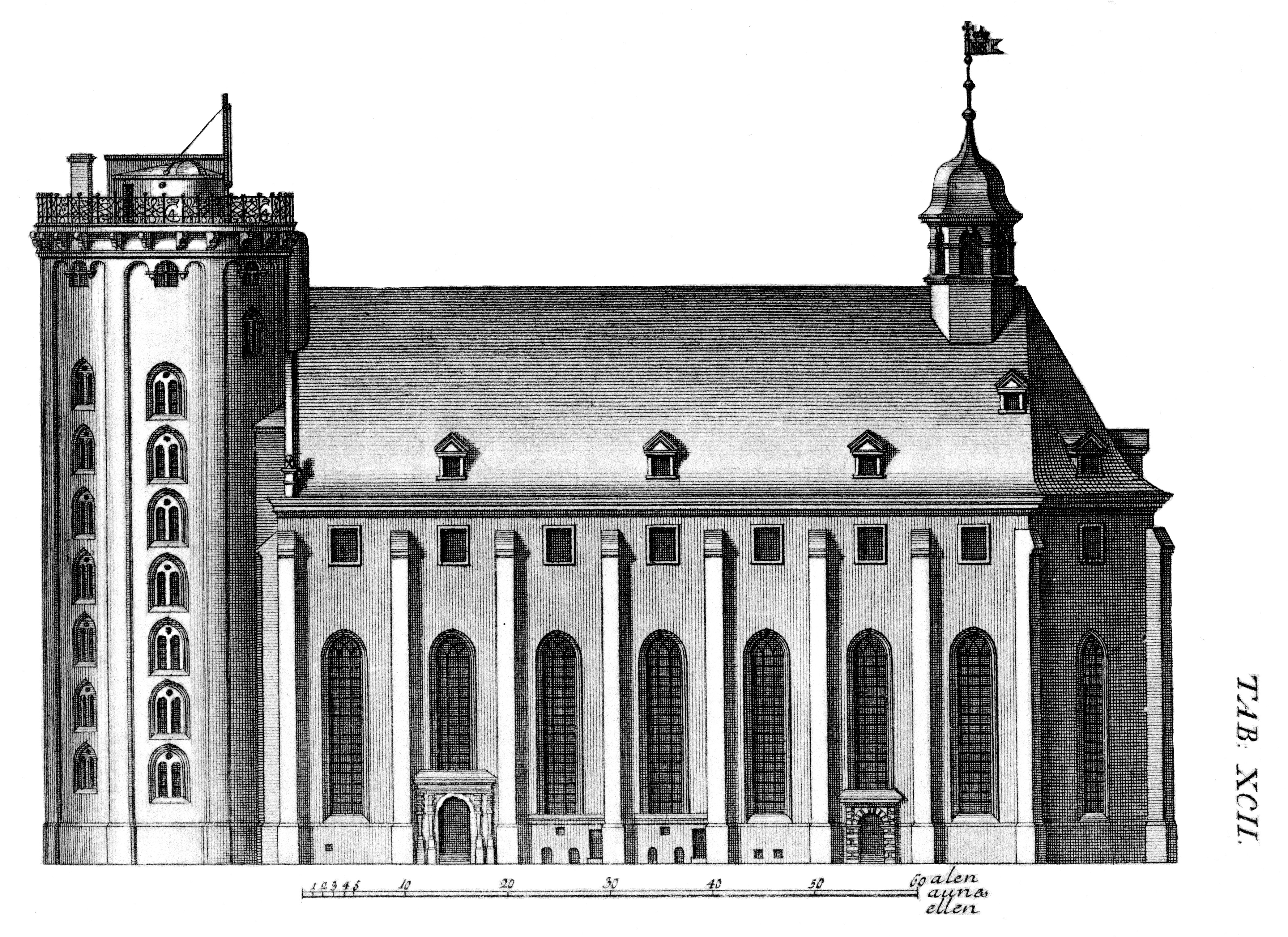 From Hafnia Hodierna by Laurids de Thurah, 1748. Drawings of buildings in Copenhagen. Tab.XCII. Trinitatis Kirke.